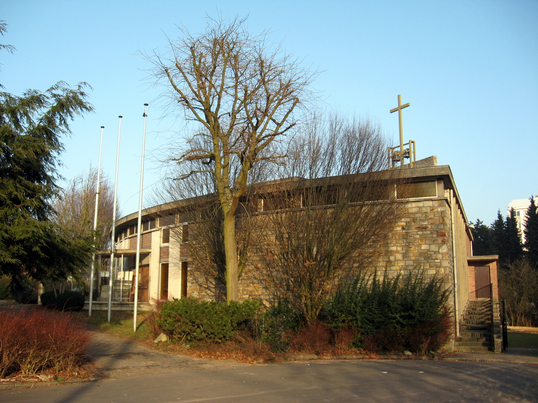 Chapel of ease of the Holy Family in Fléron, Liège, Belgium